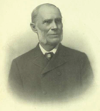 Theodor August Heintzman Title: Commemorative biographical record of the county of York, Ontario: containing biographical sketches of prominent and representative citizens and many of the early settled families Creator: J.H. Beers & Co Publisher: Toronto : J.H. Beers & co Date: 1907 Licenses: PD-Canada since "it is a photograph that was created before January 1, 1949". PD-US-1923-abroad since "it was first published outside the United States prior to January 1, 1923"